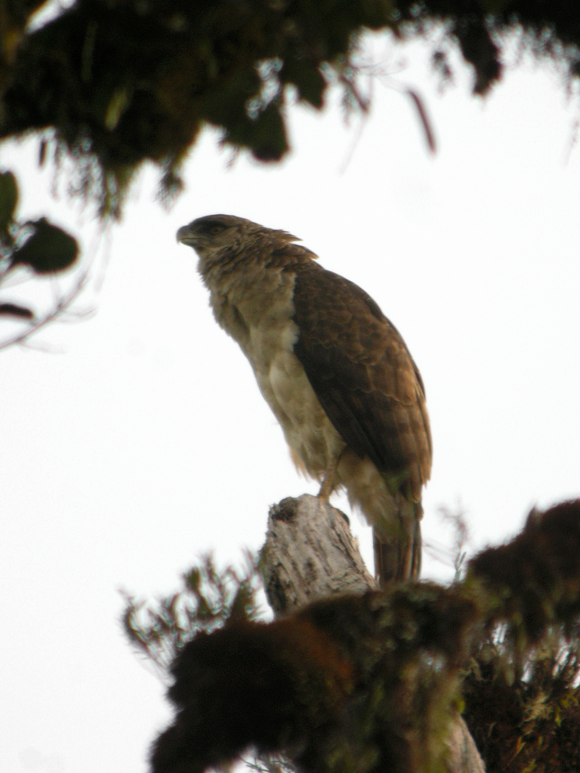 New Guinea Harpy Eagle, Harpyopsis novaeguineae